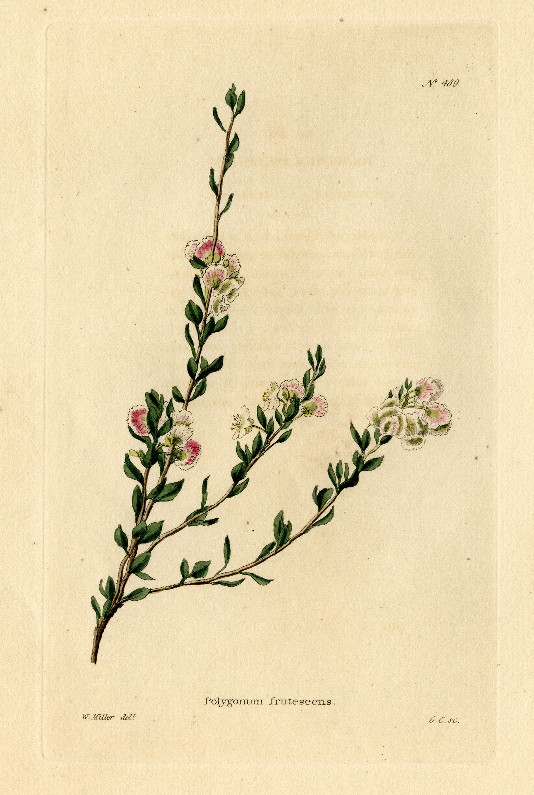 Polygonum frutescens drawn by William Miller from "The Botanical Cabinet" (London 1817-1833) plate 489